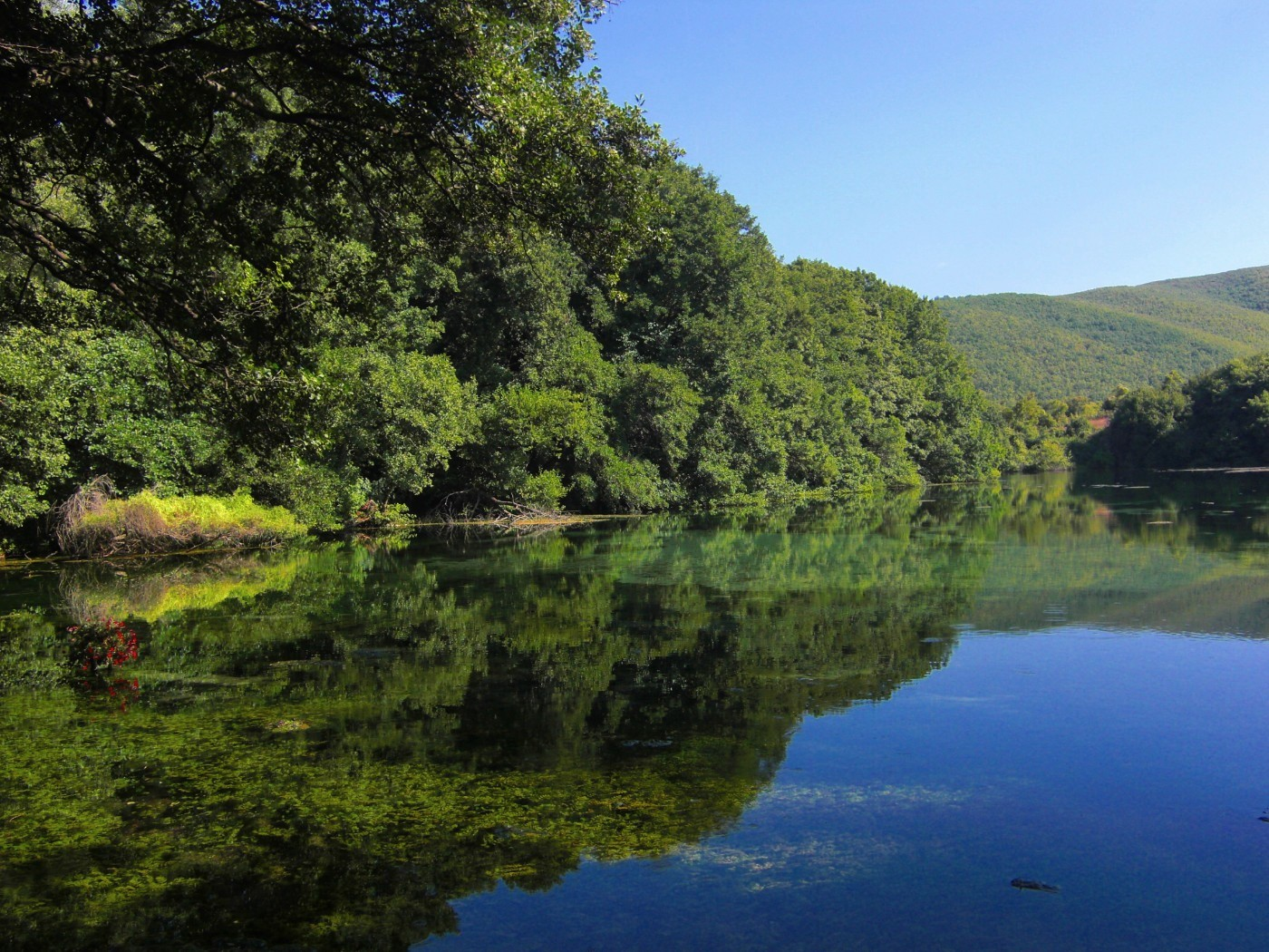 Under the mountain of Galičica there are numerous springs, some of them being strong and karst, such as the springs called Island “Ostrovo” near St. Naum Monastery (IX century) in Macedonia. They are forming the river Black Drim “Crn Drim” which flows into the lake. The Lake Ohrid flows out near Struga and forms again the river of Black Drim.